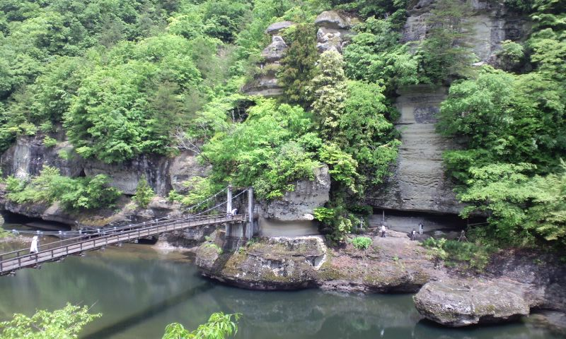 Tou_no_heturi. 塔のへつり, Shimogou.